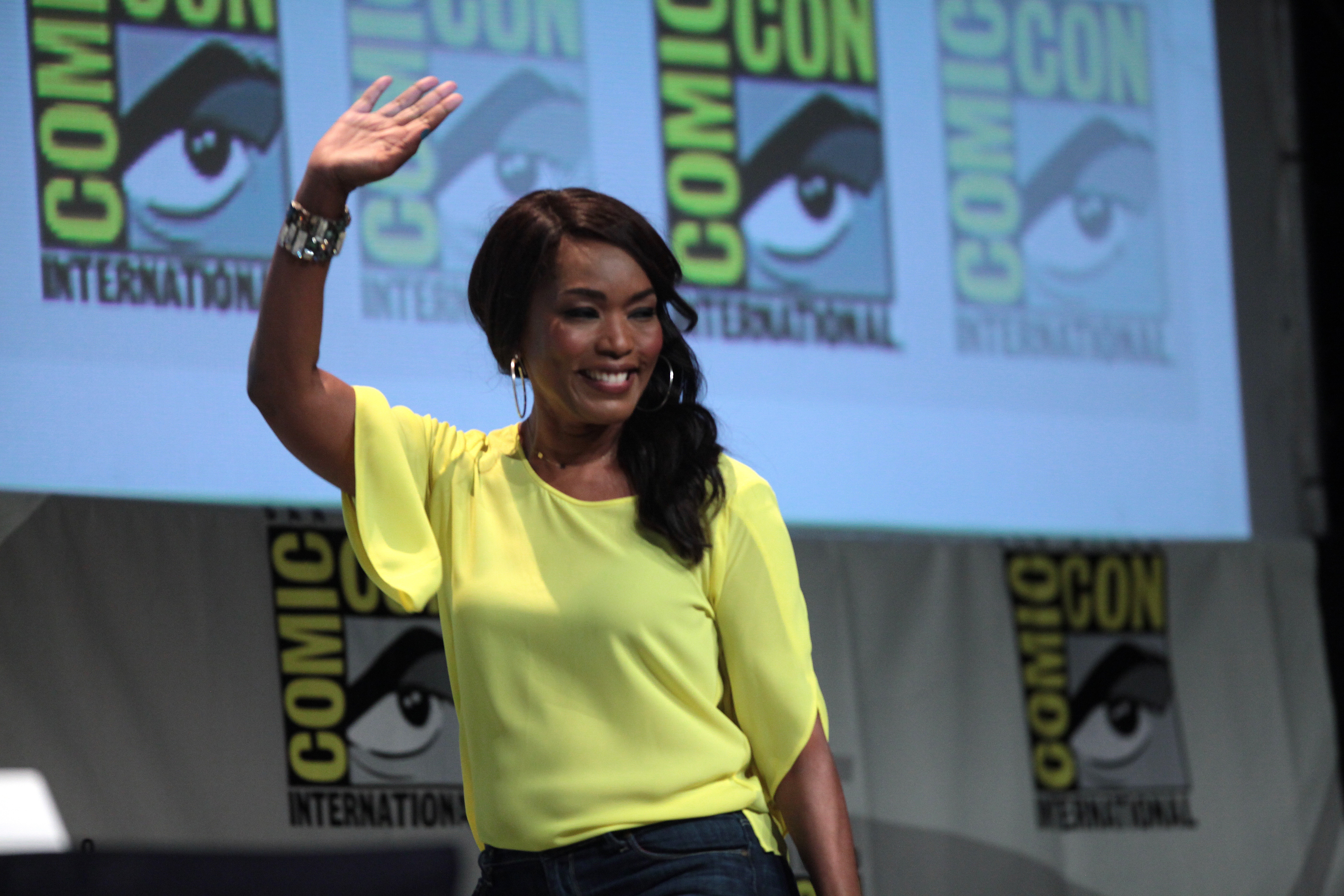 Angela Bassett speaking at the 2015 San Diego Comic Con International, for "American Horror Story", at the San Diego Convention Center in San Diego, California.